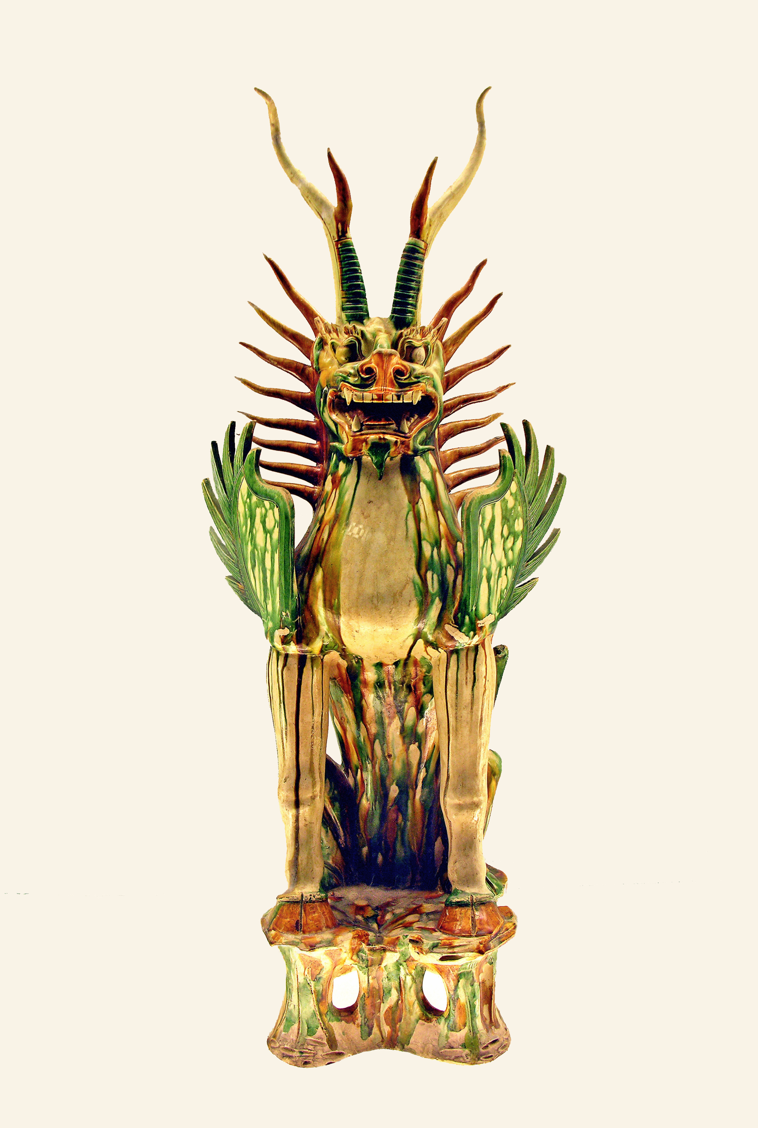 PLEASE, no multi invitations in your comments. DO NOT FEEL YOU HAVE TO COMMENT.Thanks. The person who died was probably scared to death by this guy....LOL Polychrome glazed pottery statue of tomb guardian beast (618~907 AD)